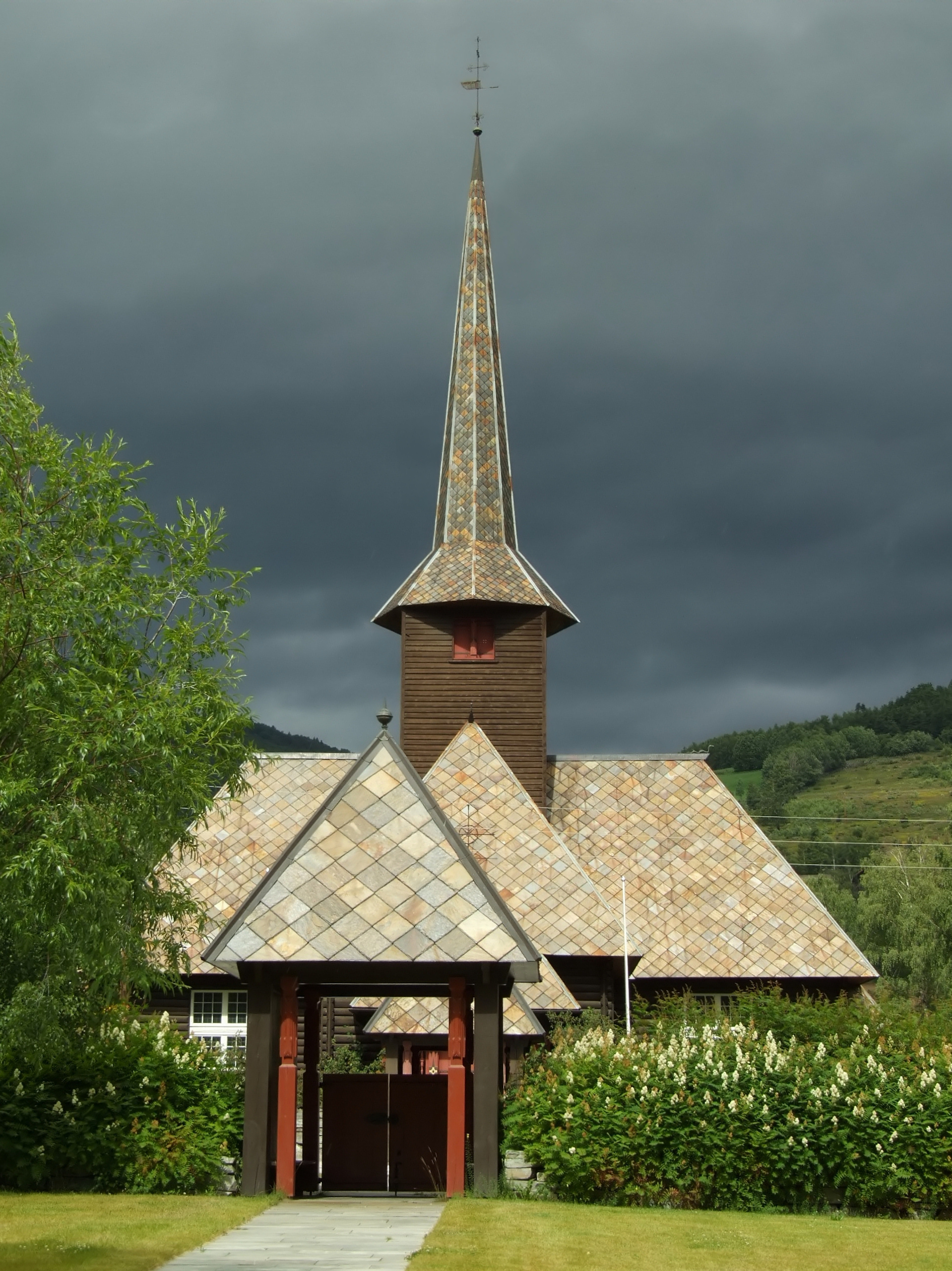 Wooden church in Kvam, Norway